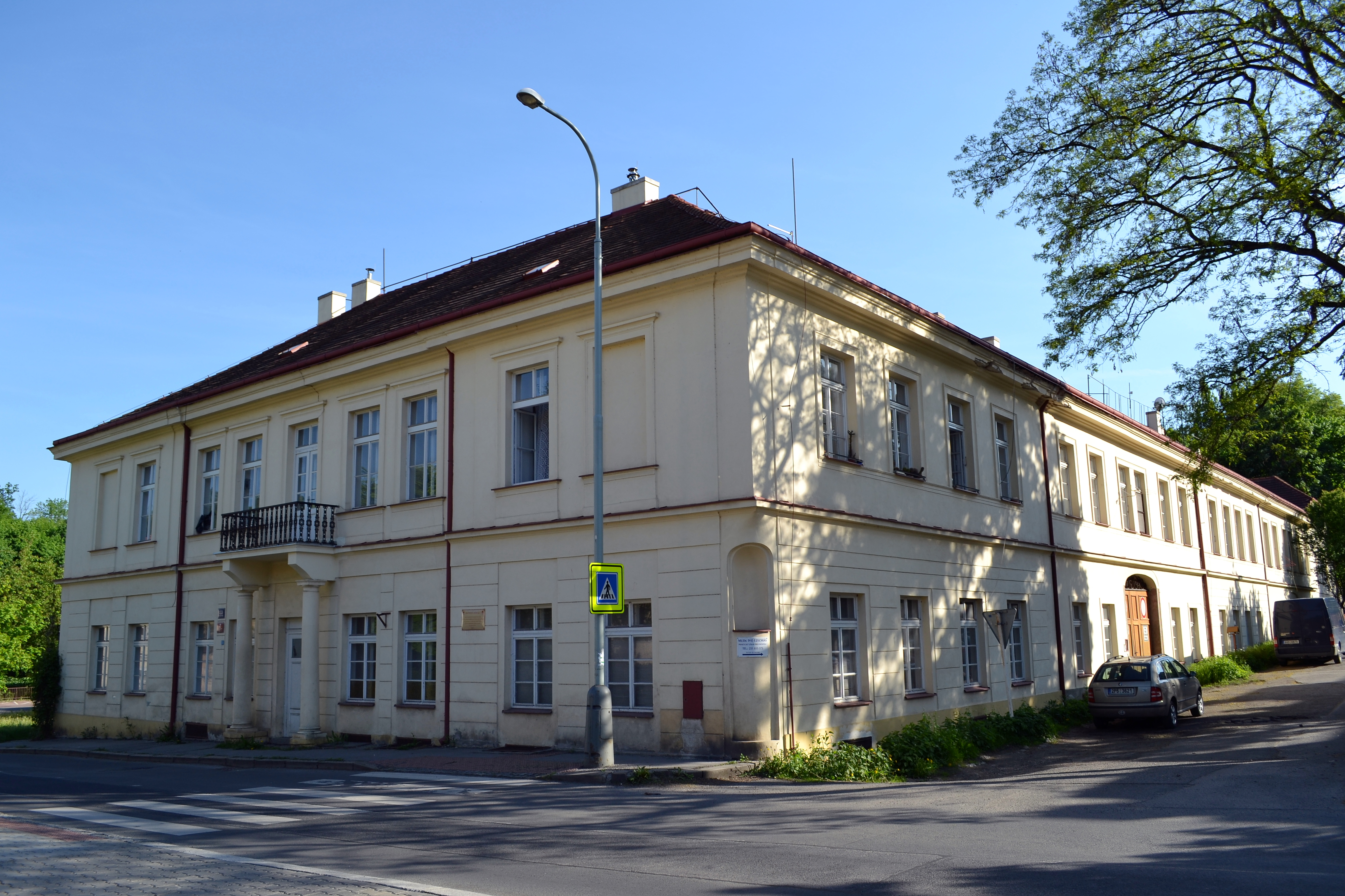 Cultural monument "tvrz Raudnitzův dům", Hlubočepská 2/33, Prague 5, Czech Republic.